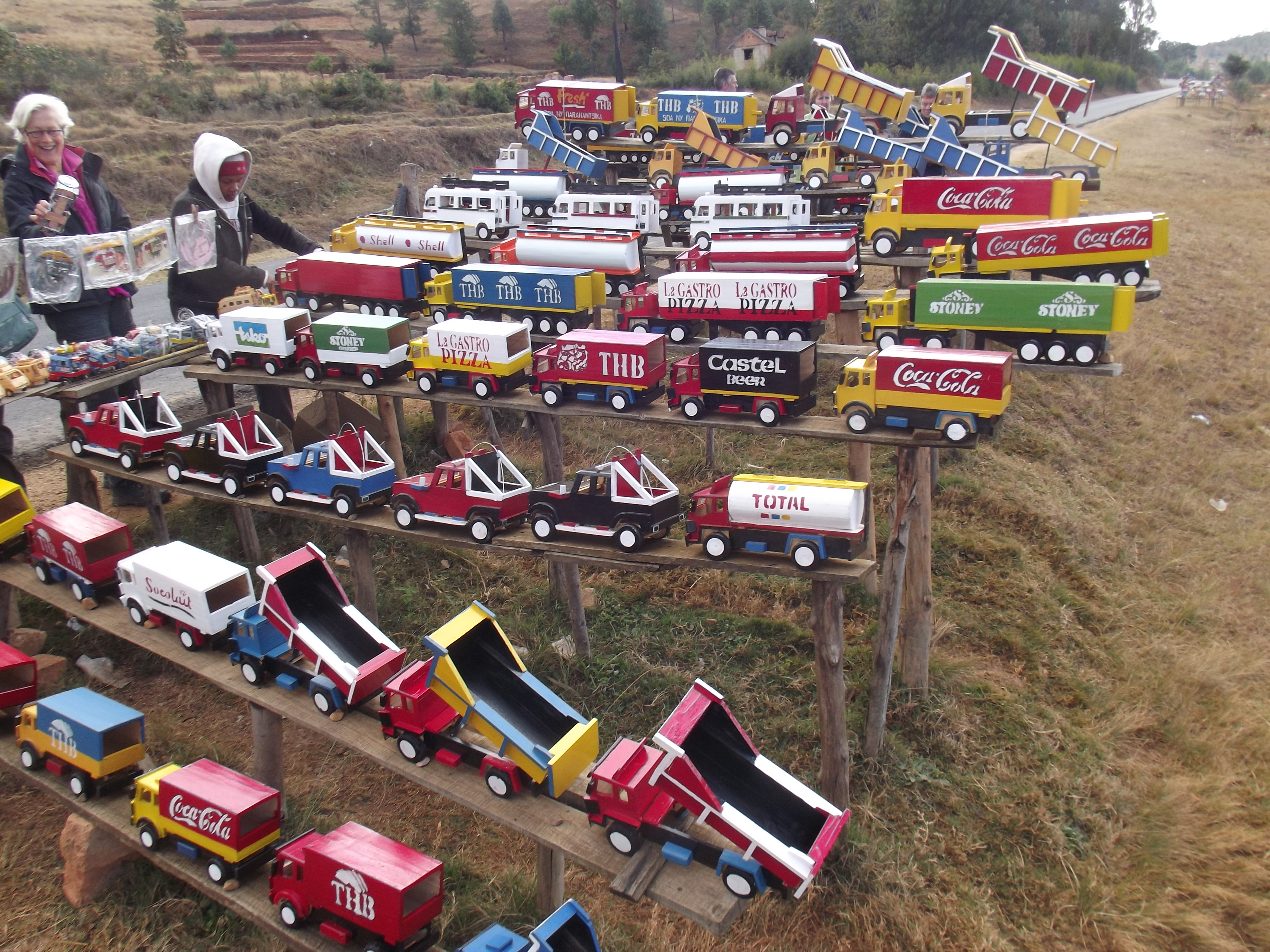 Handicraft shpo along the N7 road in Madagascar with handmade model trucks